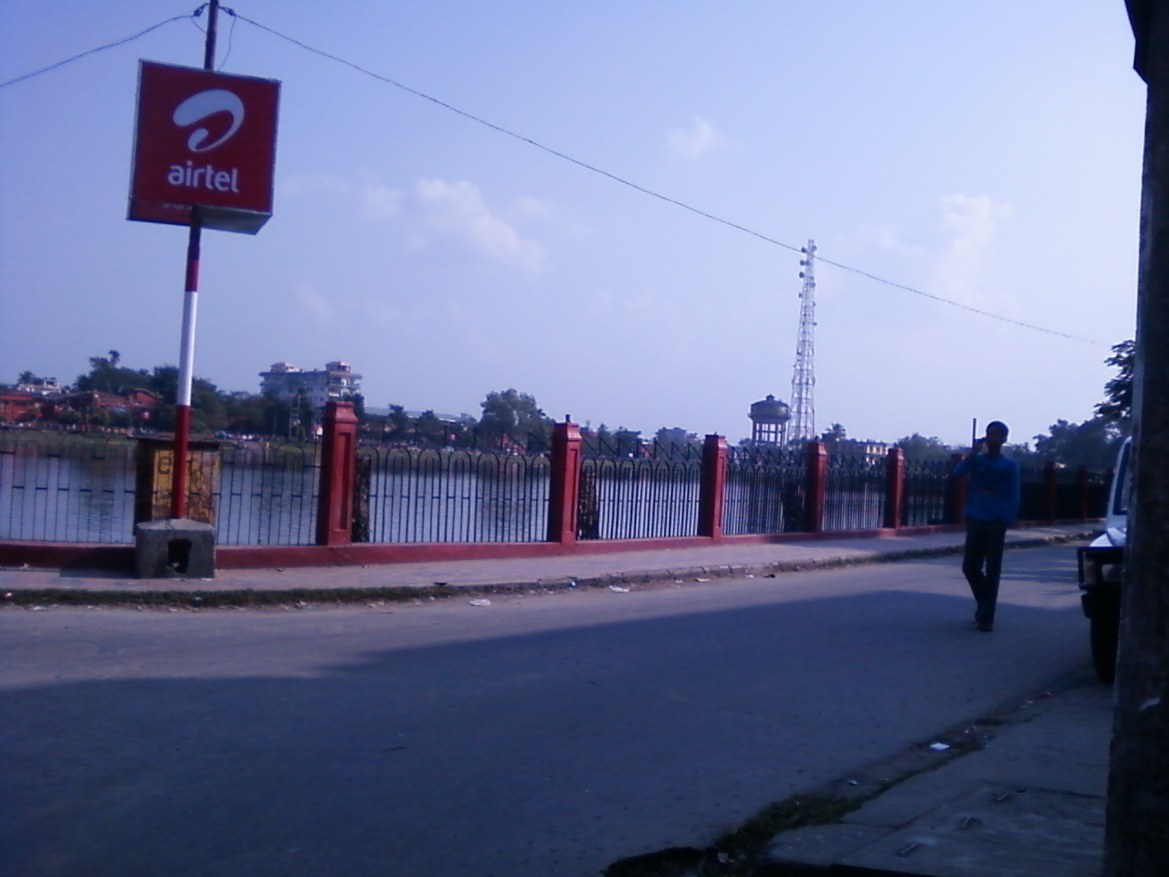 Sagar Dighi